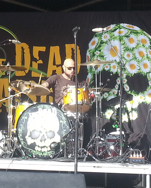 Dead Daisies performing at Uproar Festival 2013